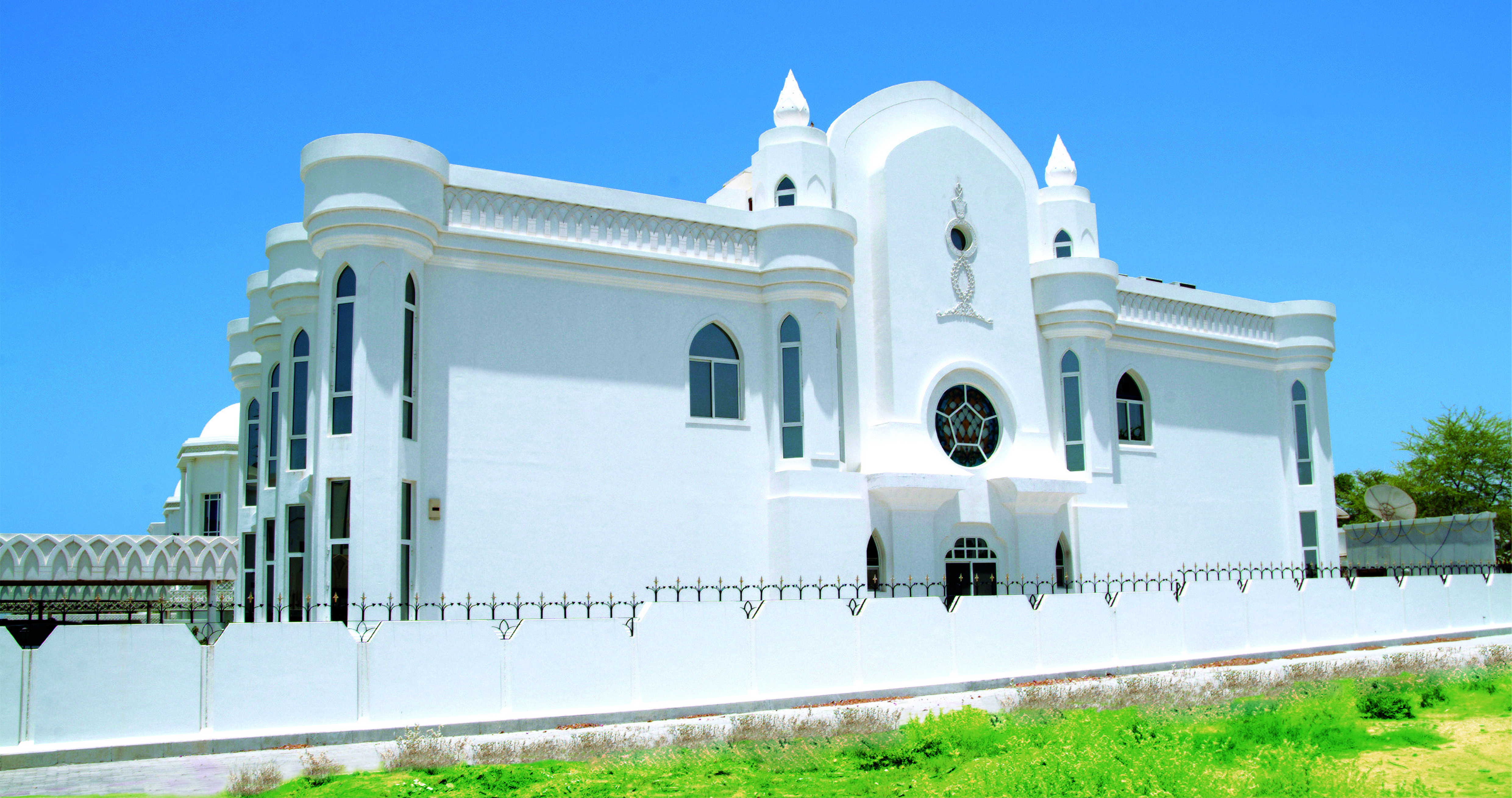 Oman Villa by Basil Al Bayati